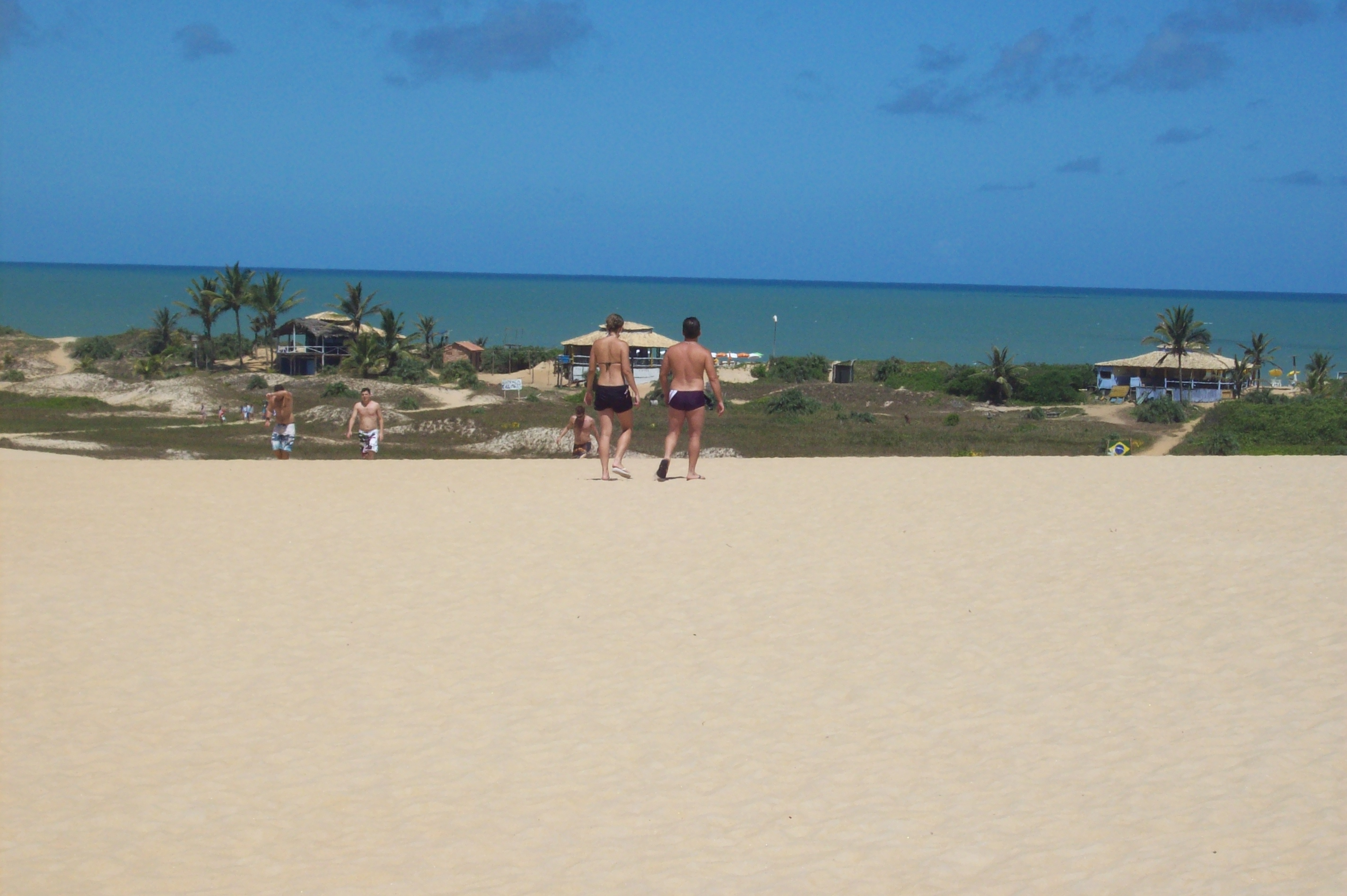 Itaunas Beach